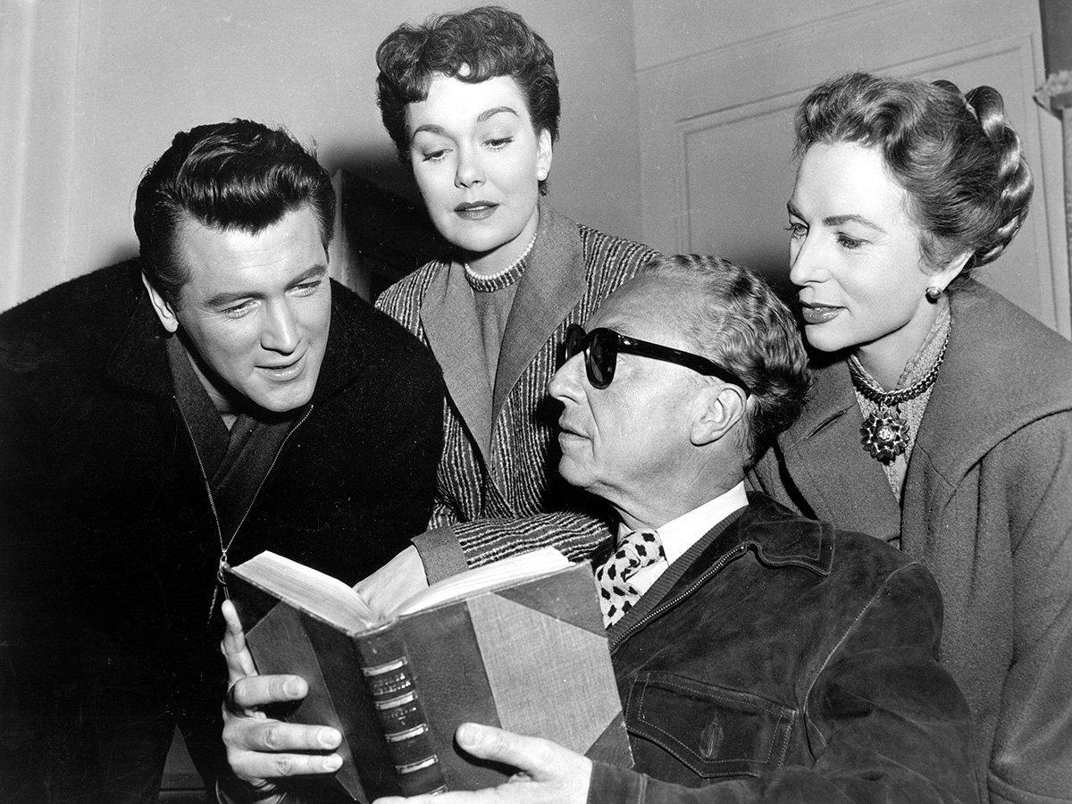 Publicity photo from the set of the 1955 film All That Heaven Allows. From left to right: actor Rock Hudson, actress Jane Wyman, director Douglas Sirk, and actress Agnes Moorehead.